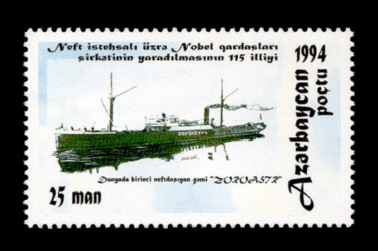 Stamp of Azerbaijan